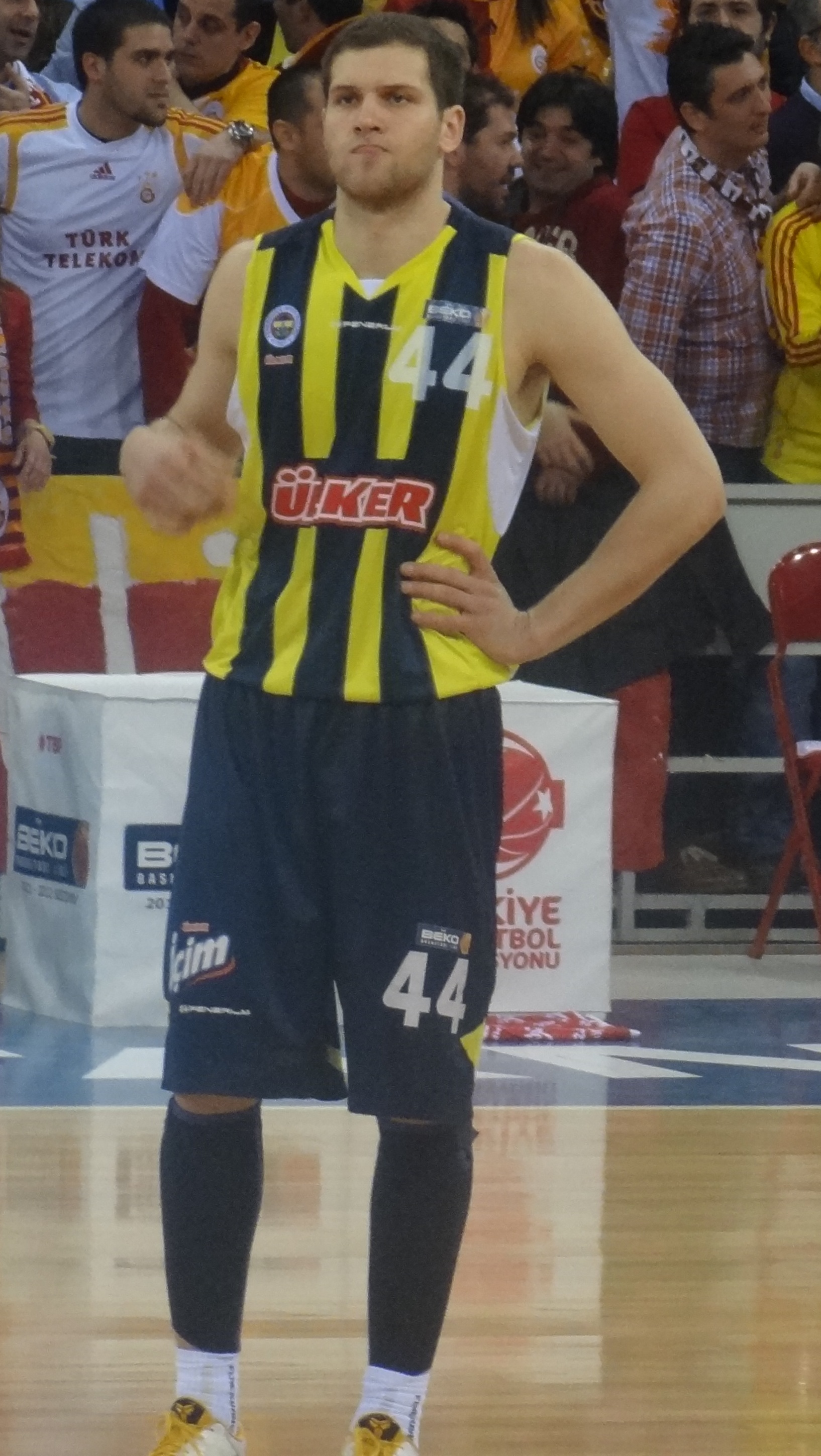 Galatasaray Fenerbahçe match